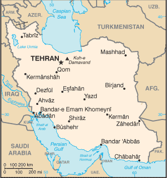 Map of Iran showing major cities.